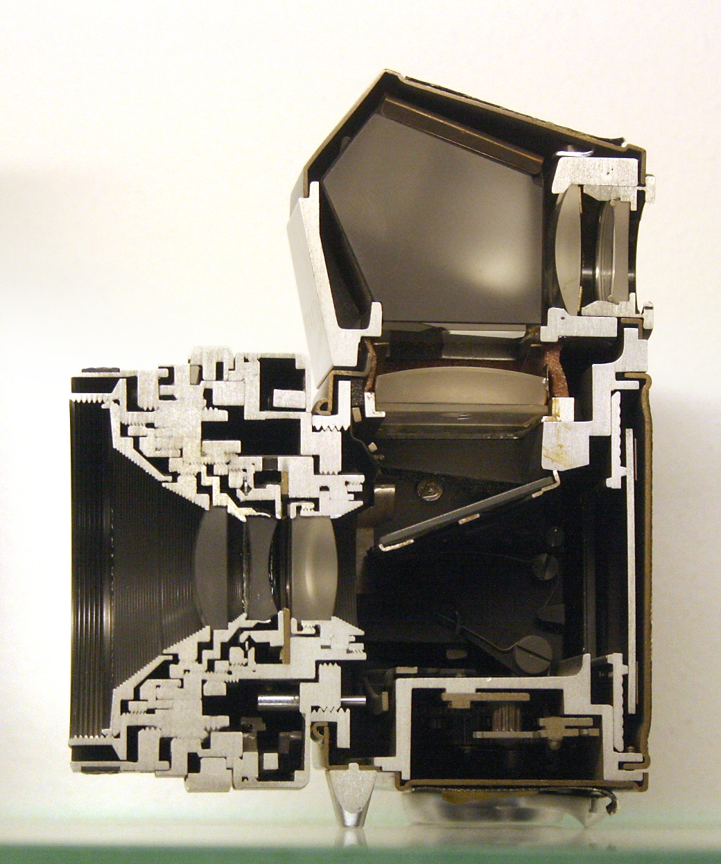 Cross section of a Praktica SLR camera on display at the Musée Français de la Photographie, in Bièvres, France.